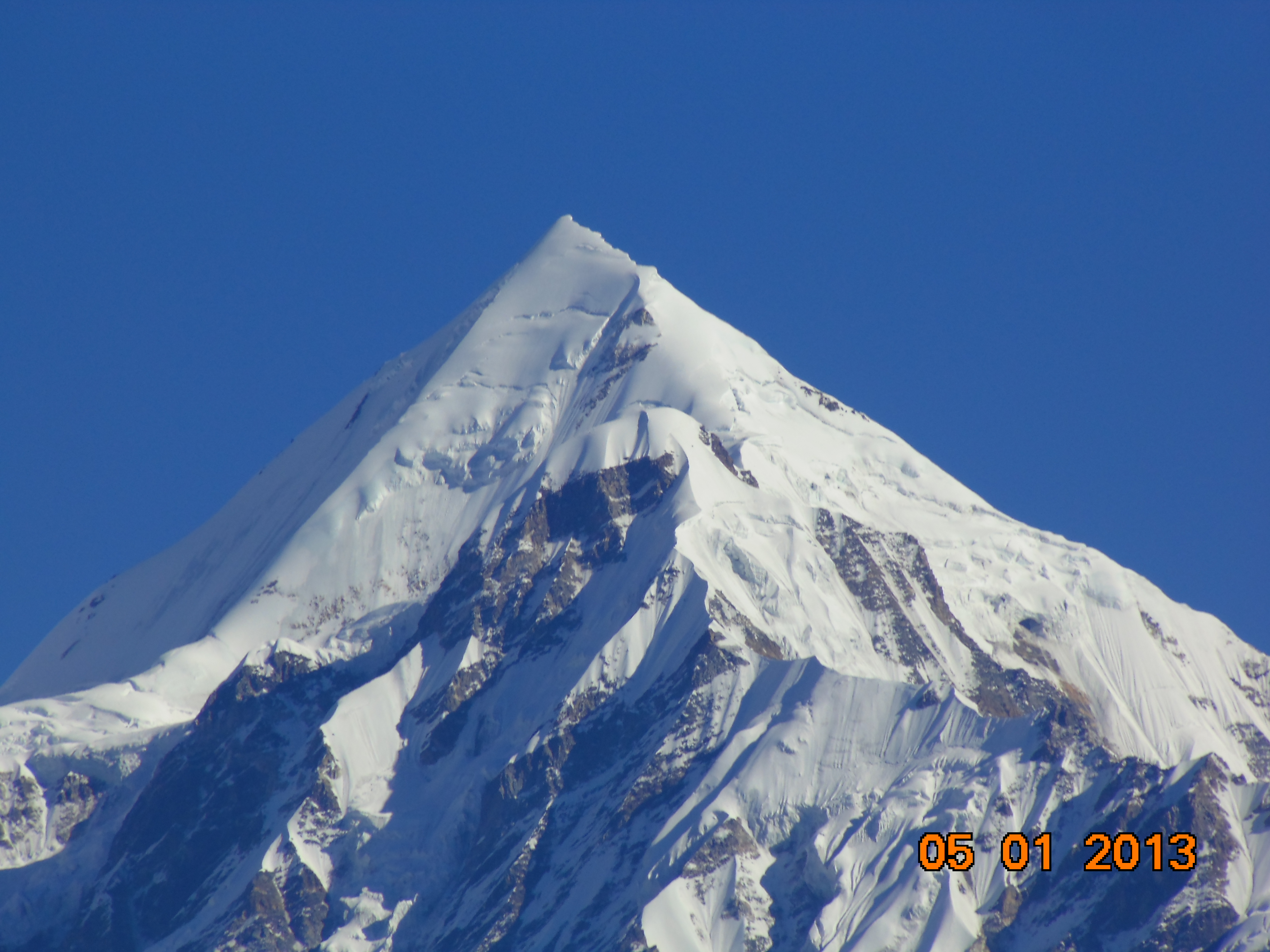 panchachuli ,uttarakhand,India